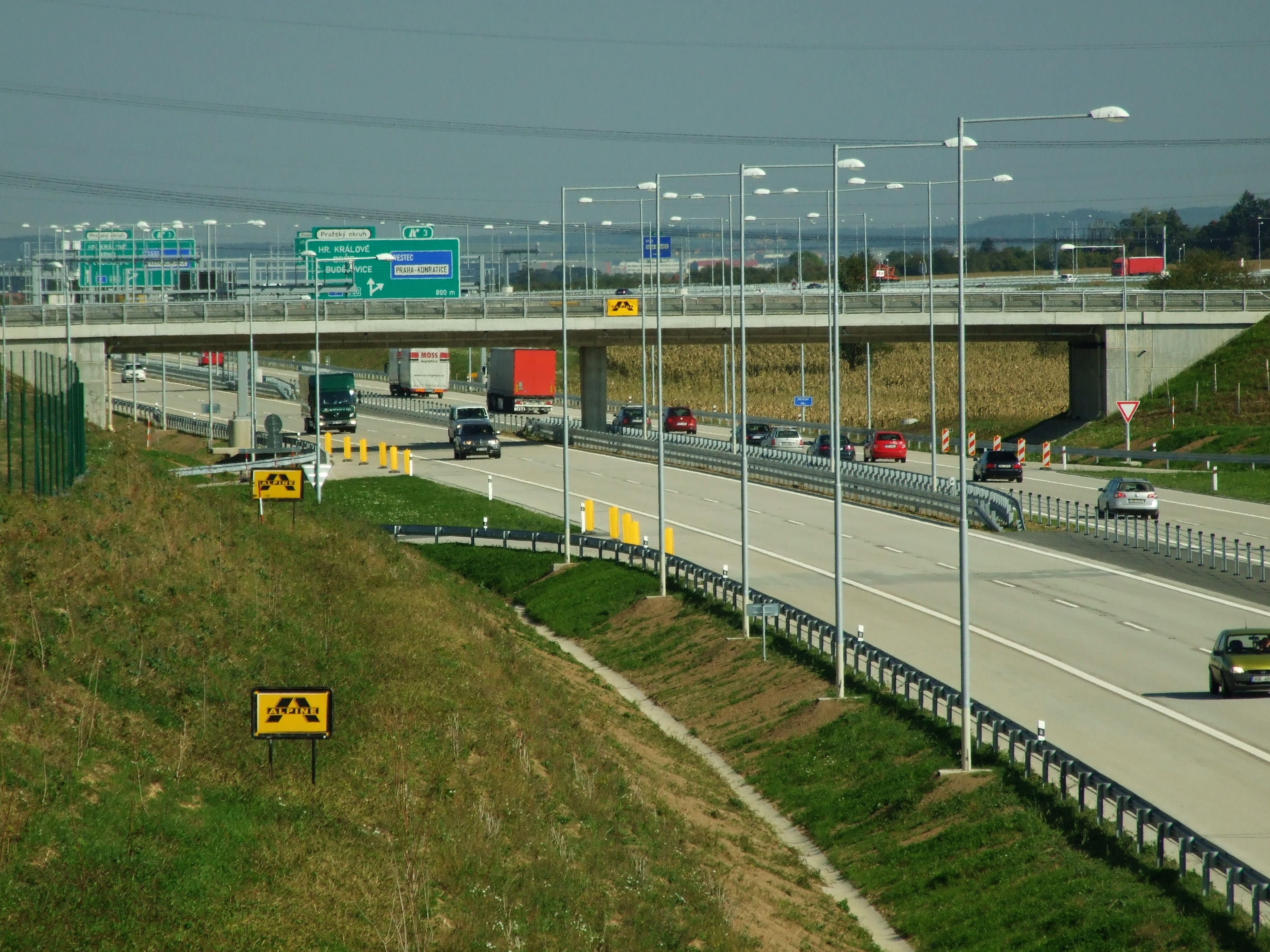 Southern section of Prague ring near Cholupice - just a few days after opening for general traffic